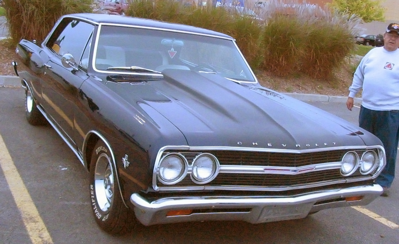 1965 Chevrolet Chevelle photographed in Laval, Quebec, Canada at Les chauds vendredis.